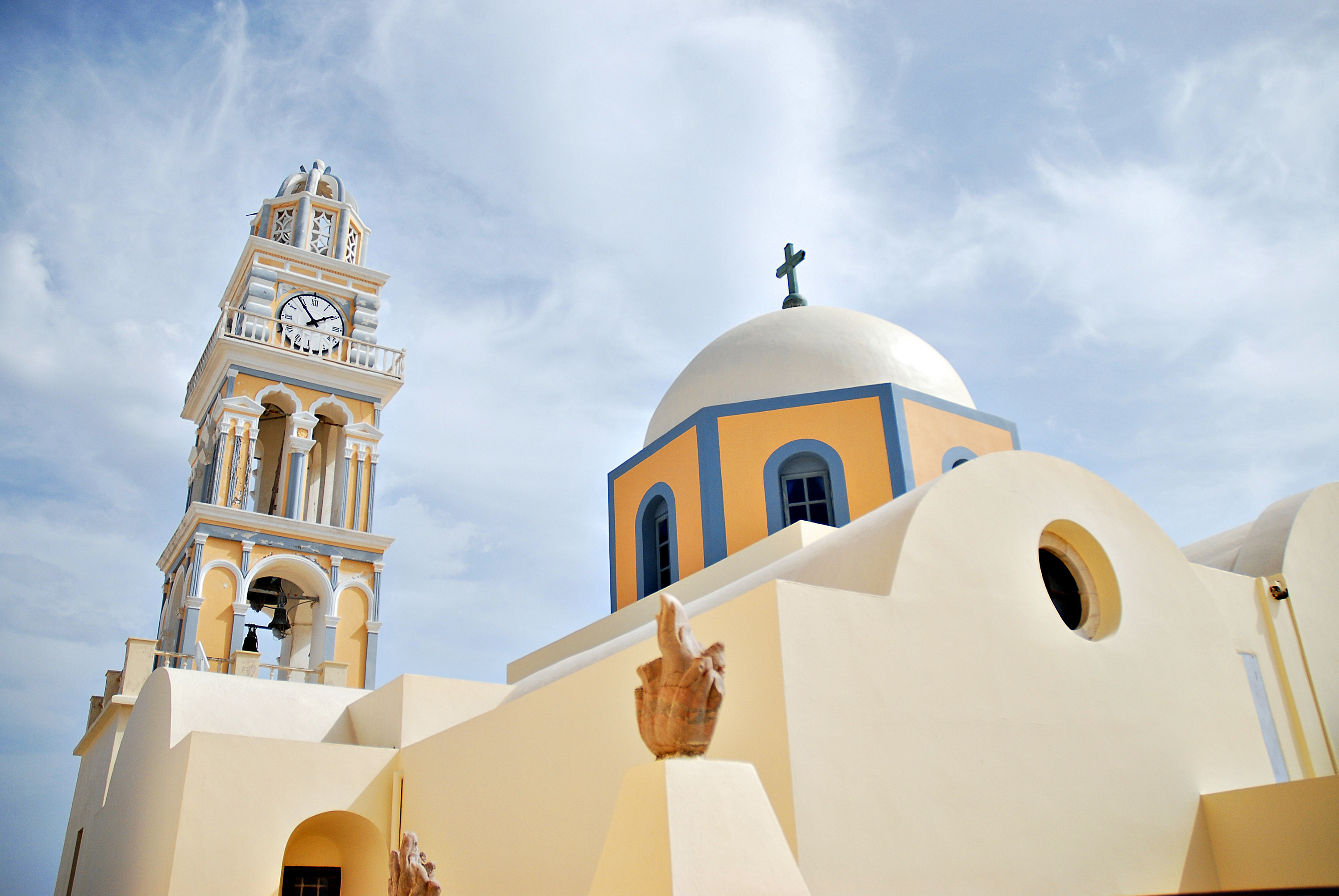 The Catholic Cathedral (dedicated to St. John the Baptist) situated in the Catholic quarter of Fira, Fira, Santorini island (Thira), Greece.